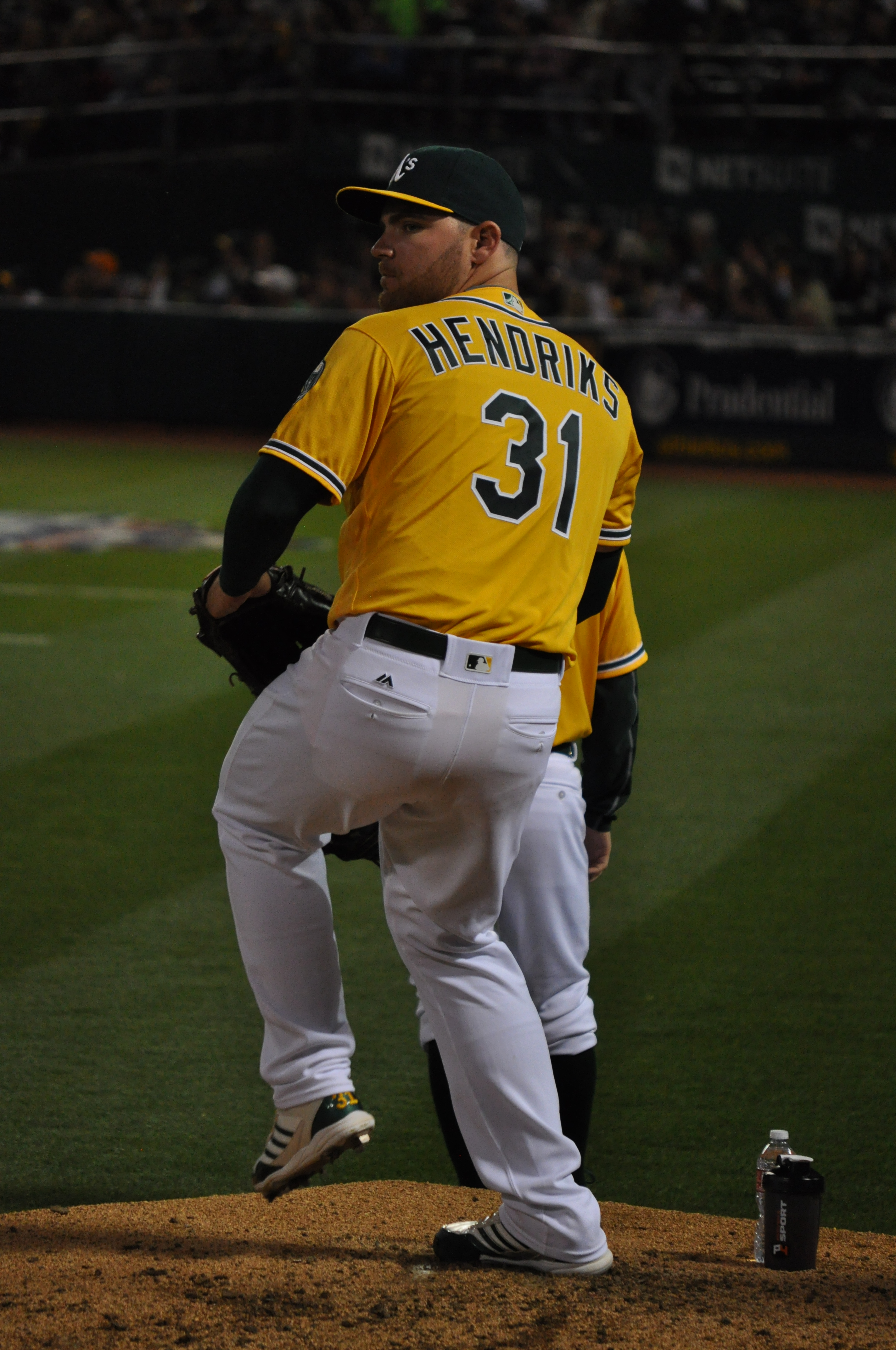 Hendriks warms up in the A's bullpen